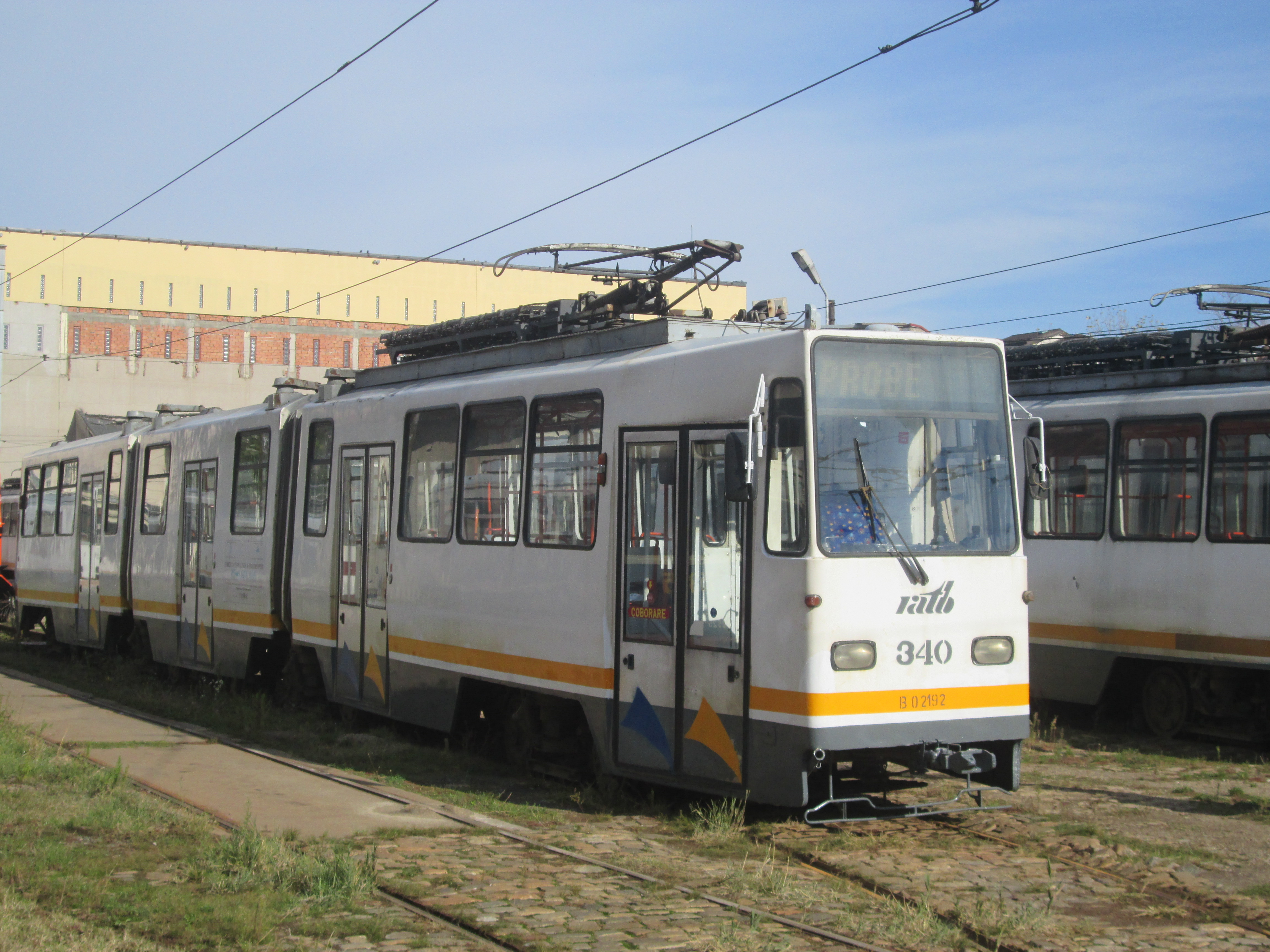 Tram number 340 (type V3A) in Victoria tram depot